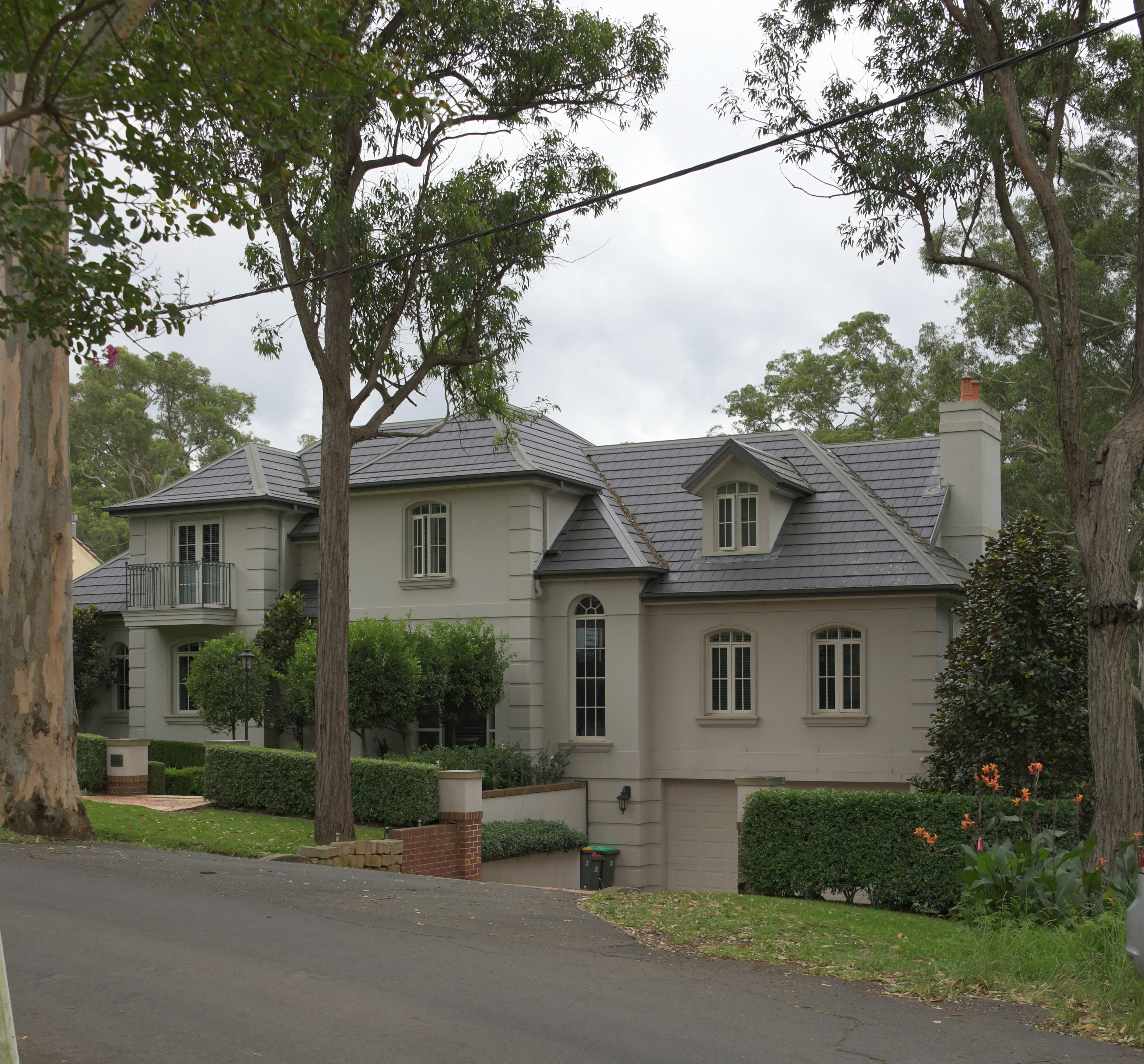 House, Beecroft, Sydney